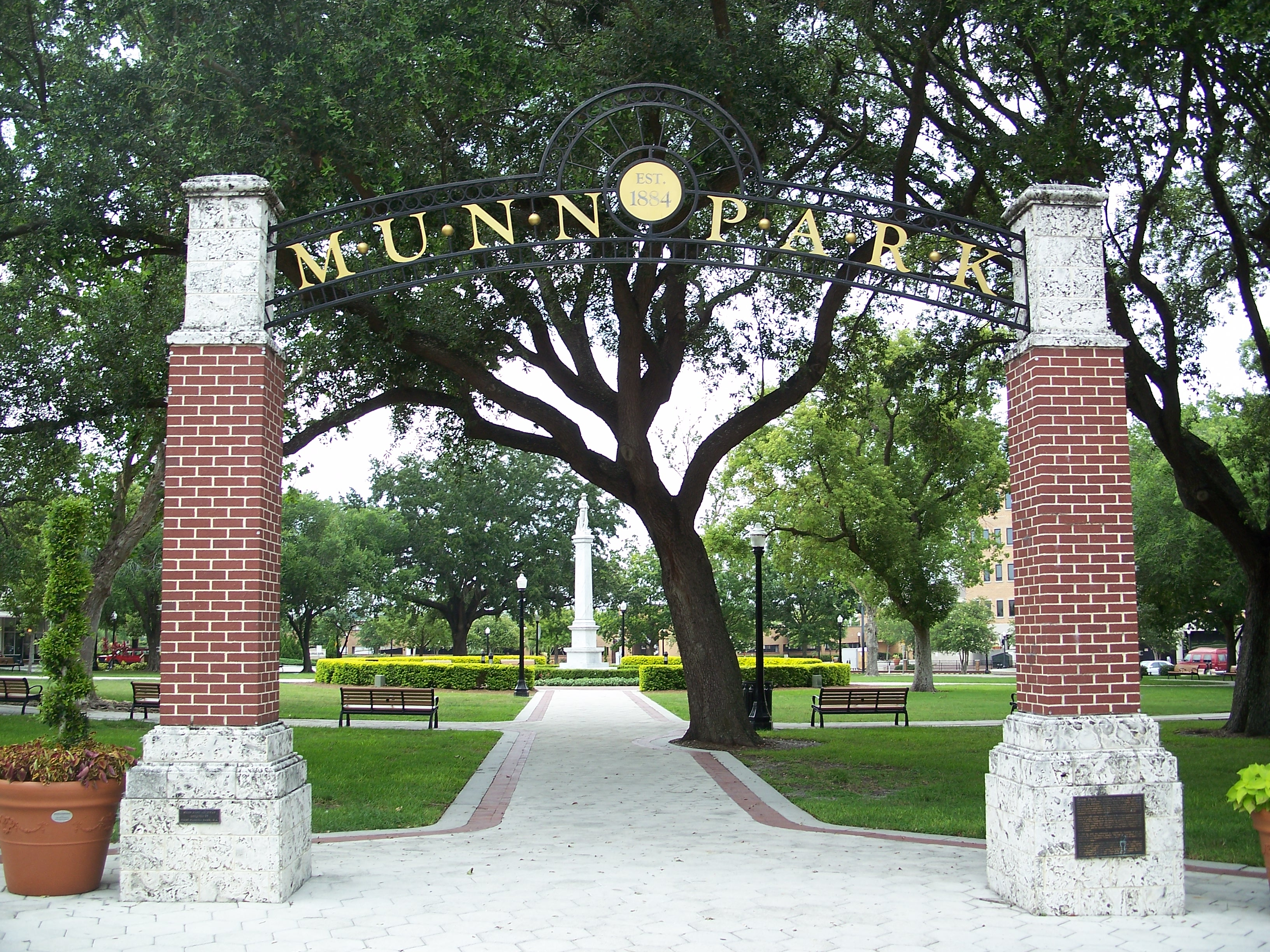 Lakeland: Munn Park Historic District: Southeast entrance to the park